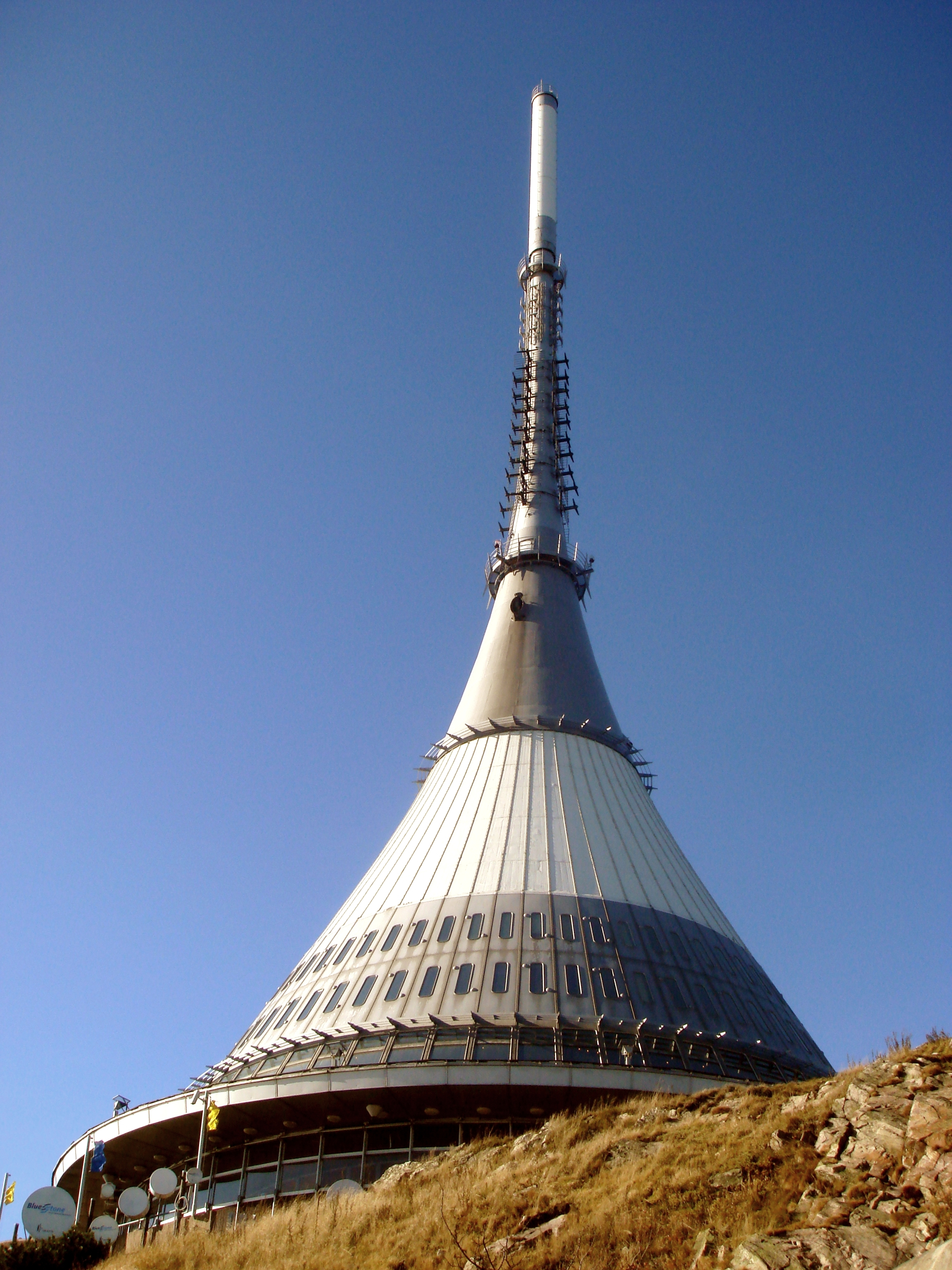 Hotel and transmitter tower on the top of the Ještěd Mountain (Liberec Region, Czechia).